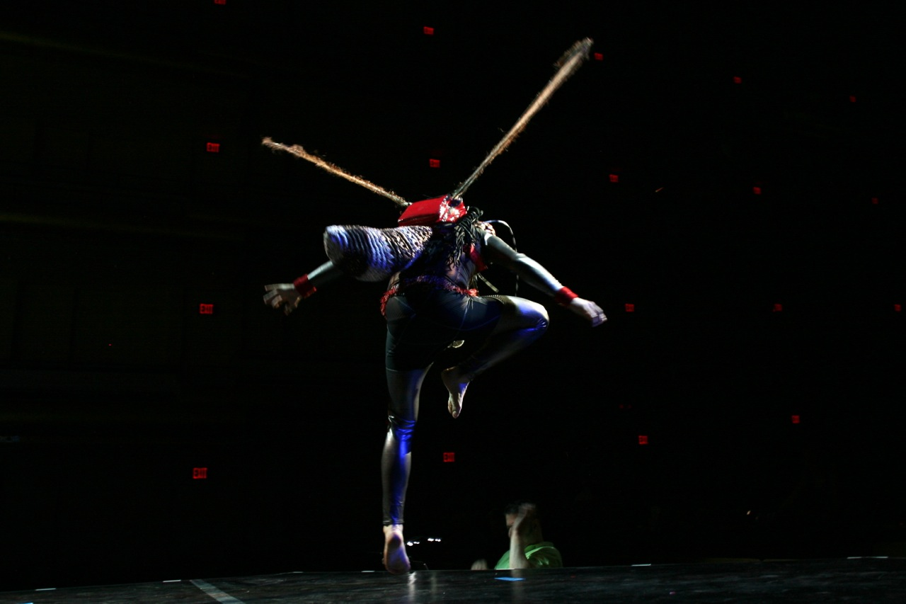 Rehearsal of Giants Are Small's adaptation of The Cunning Little Vixen